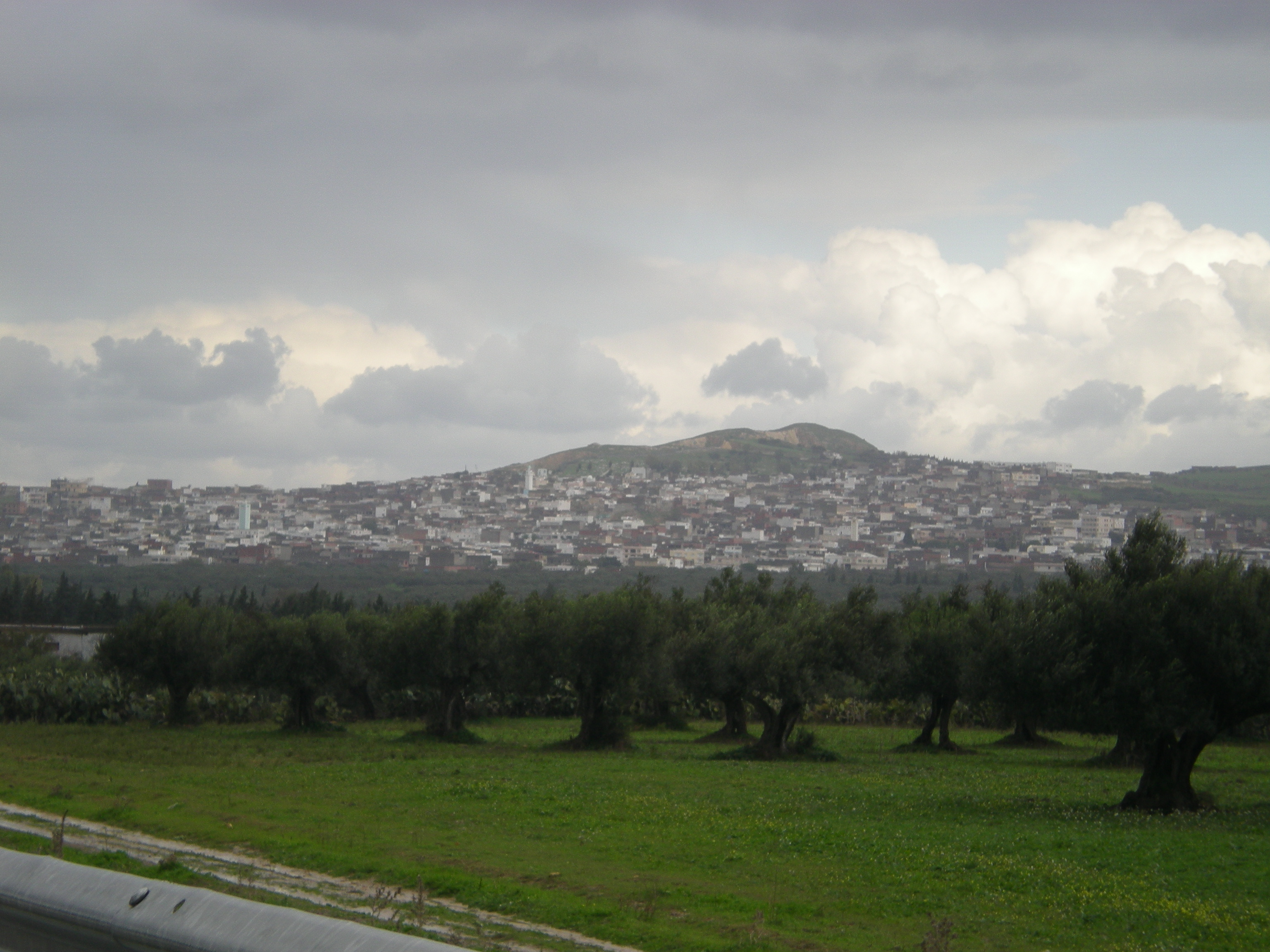 Panorama of El Alia, north of Tunisia